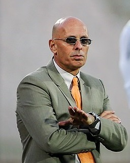 2018 FIFA World Cup and 2019 AFC Asian Cup qualification, Iran vs. India, Azadi Stadium